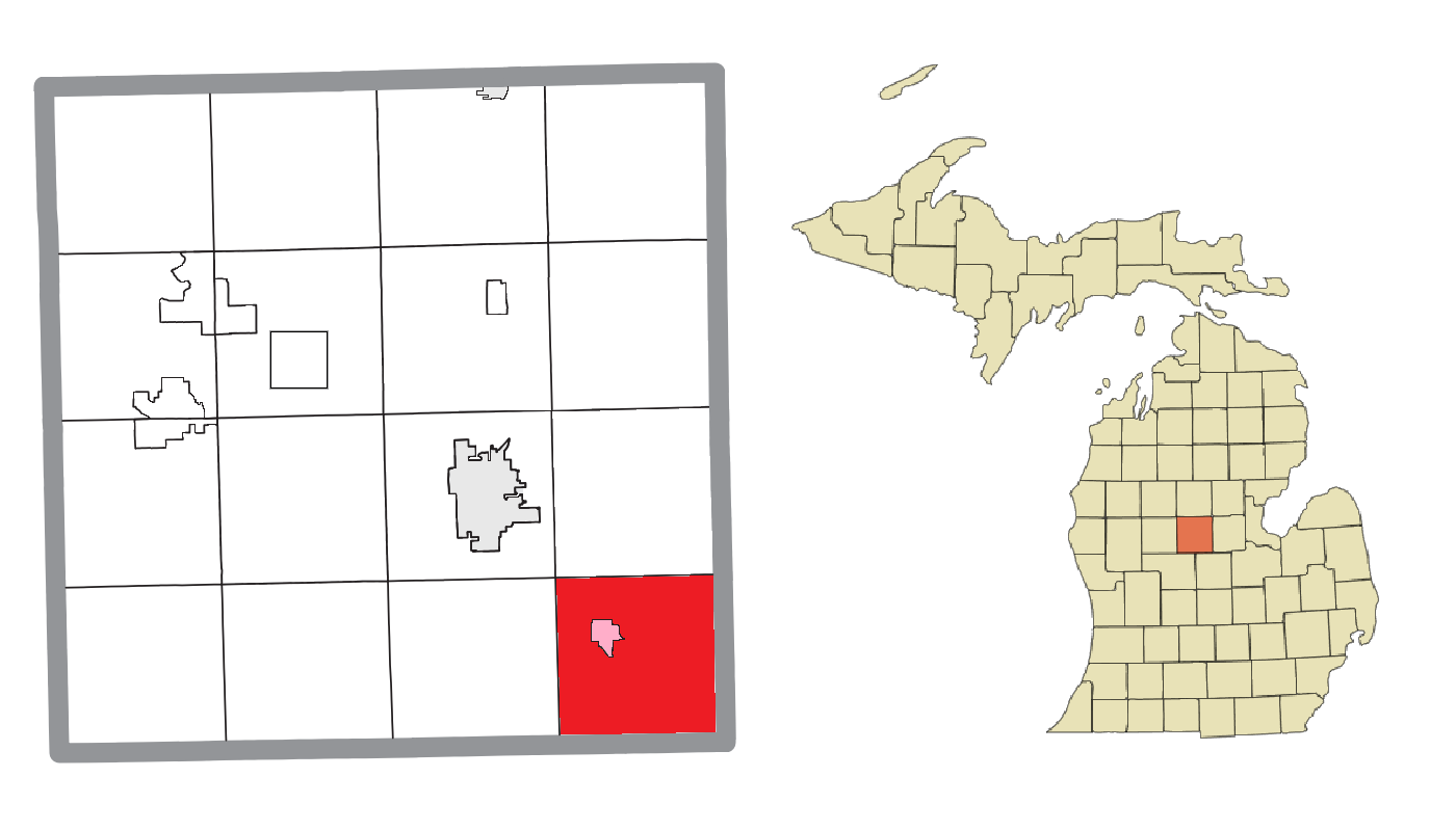 Coe Township, MI